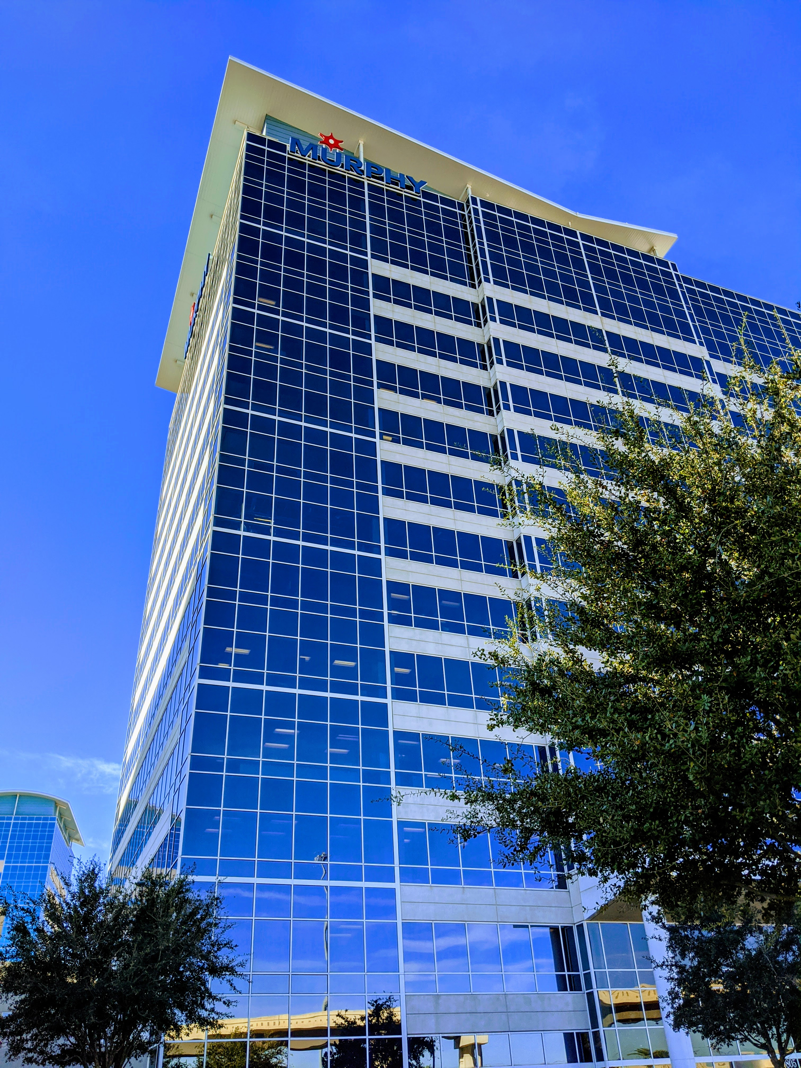 Murphy Oil Houston Headquarters, 2019